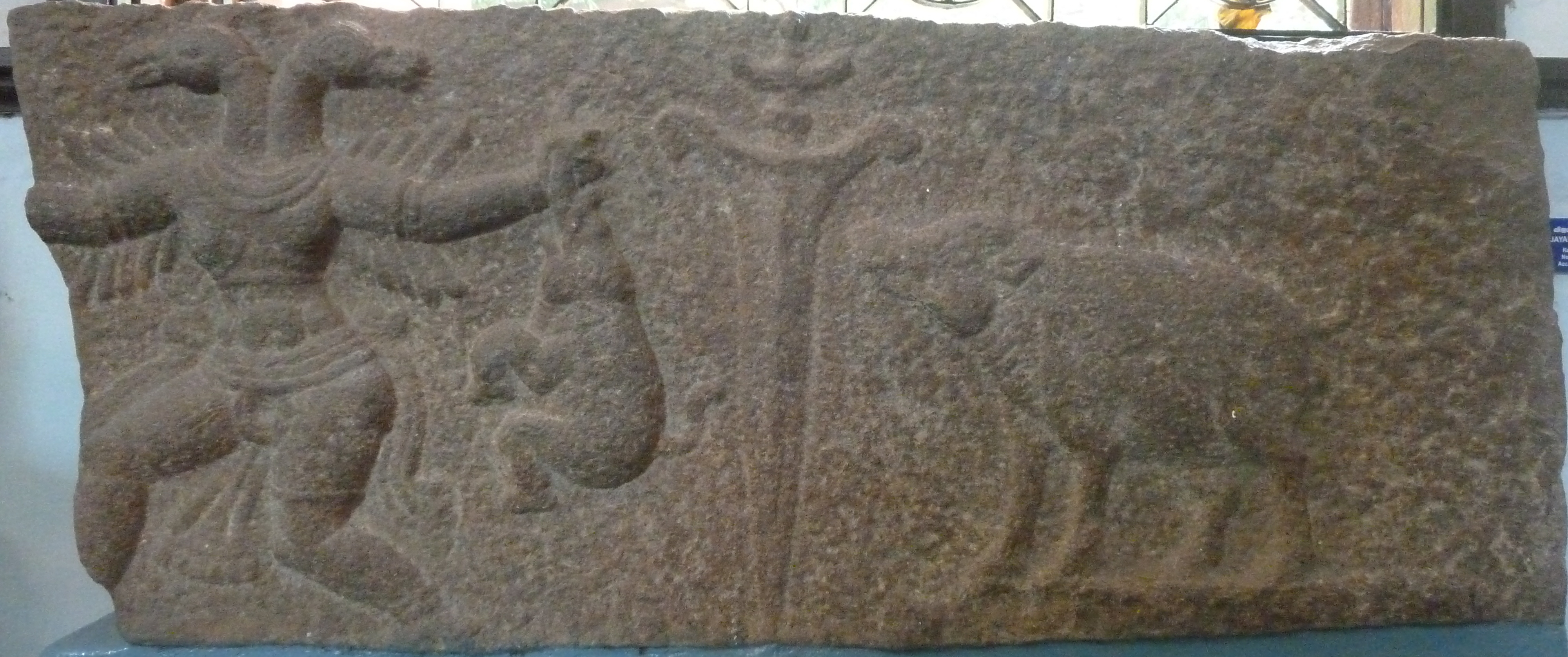 Vijayanagar crest, Kaveripakkam, North arcot district. Found in Chennai Egmore museum